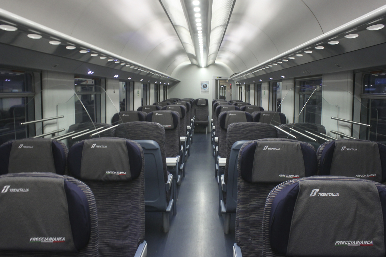 Interior of FS B 61 83 29-90 019-4 in the consist of EuroCity 23 Zürich HB — Milano C.le at Zürich HB.